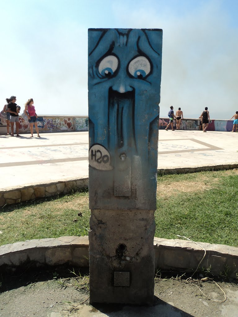 Fountain with Graffiti in Catanzaro Lido